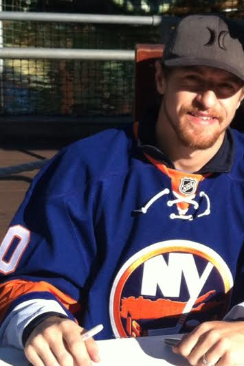 Michael Grabner in October 2013